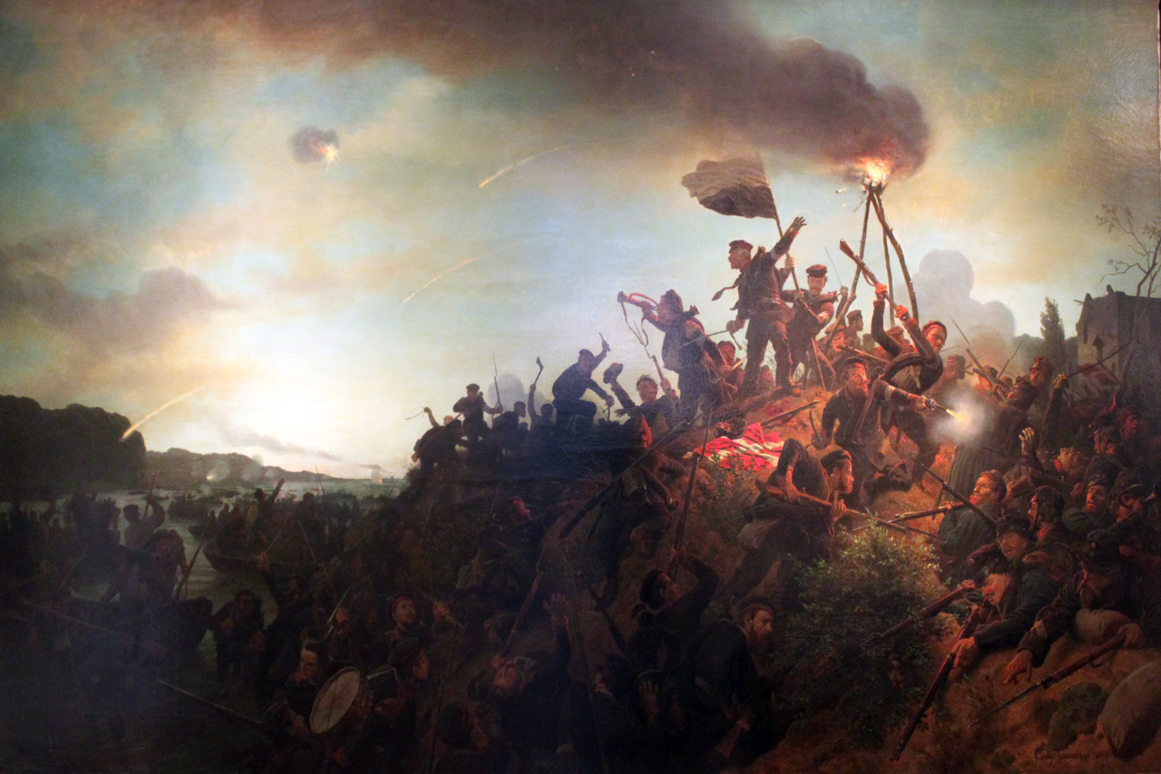 Crossing to Alsen - Prussians take Aslen Island by storm